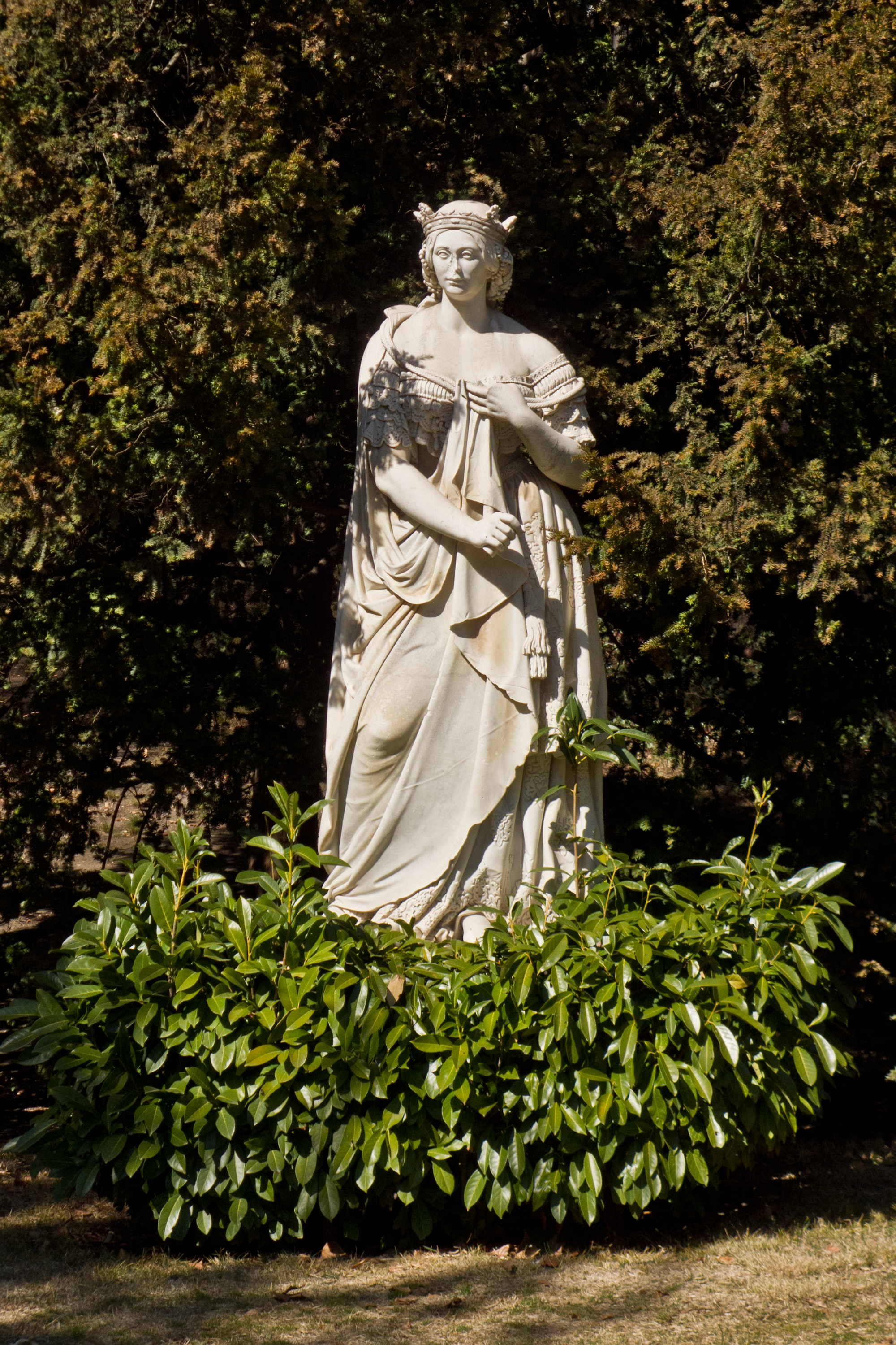 Statue of Isabel II in the gardens of Campo del Moro, Madrid, Spain.